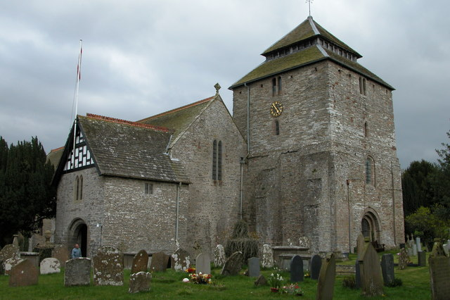 Clun Church in Shropshire where Sir Robert Howard has a memorial.